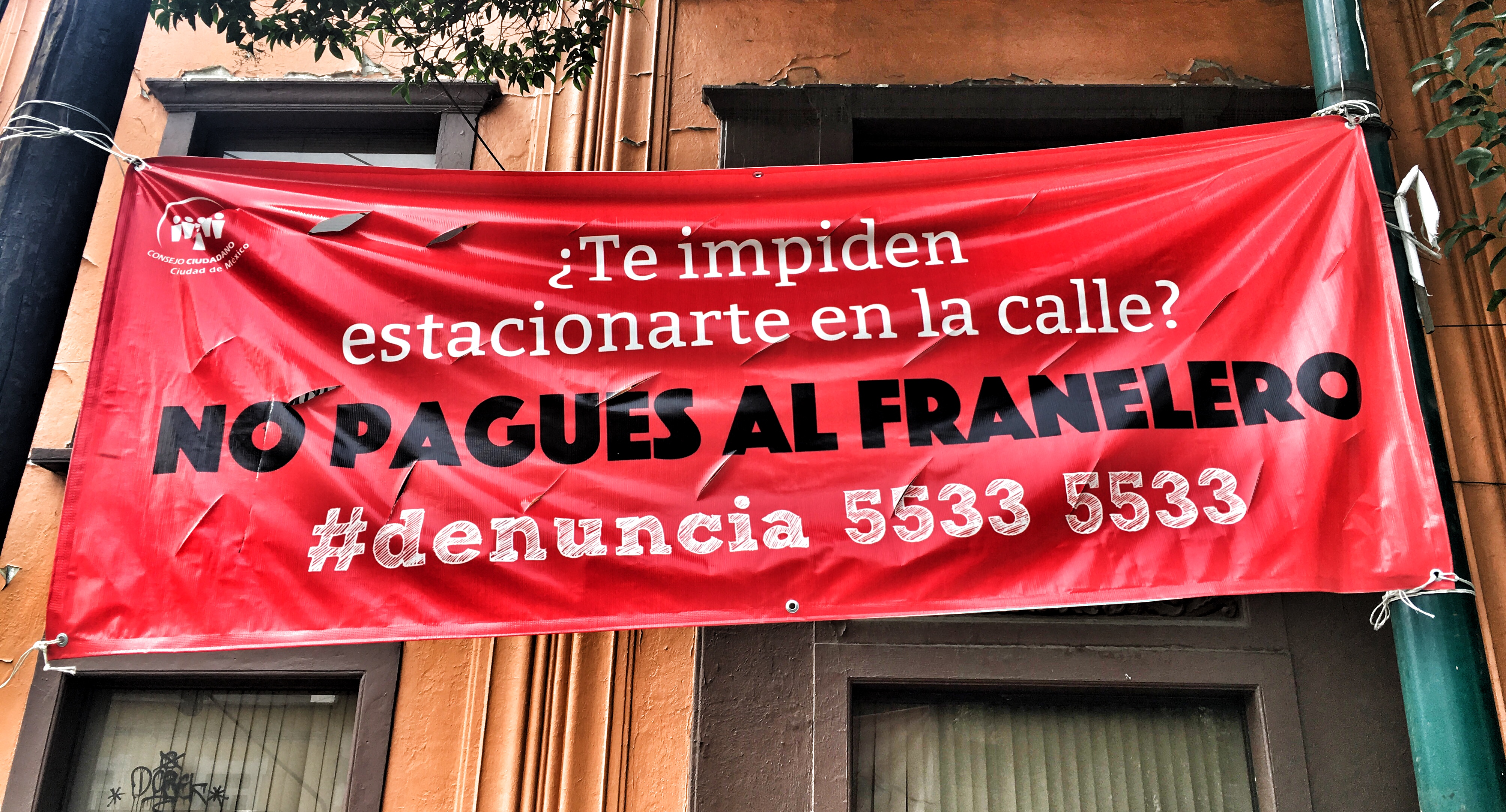 Red banner in Mexico City urging citizens not to pay franeleros (informal car guards) and to report them to the police